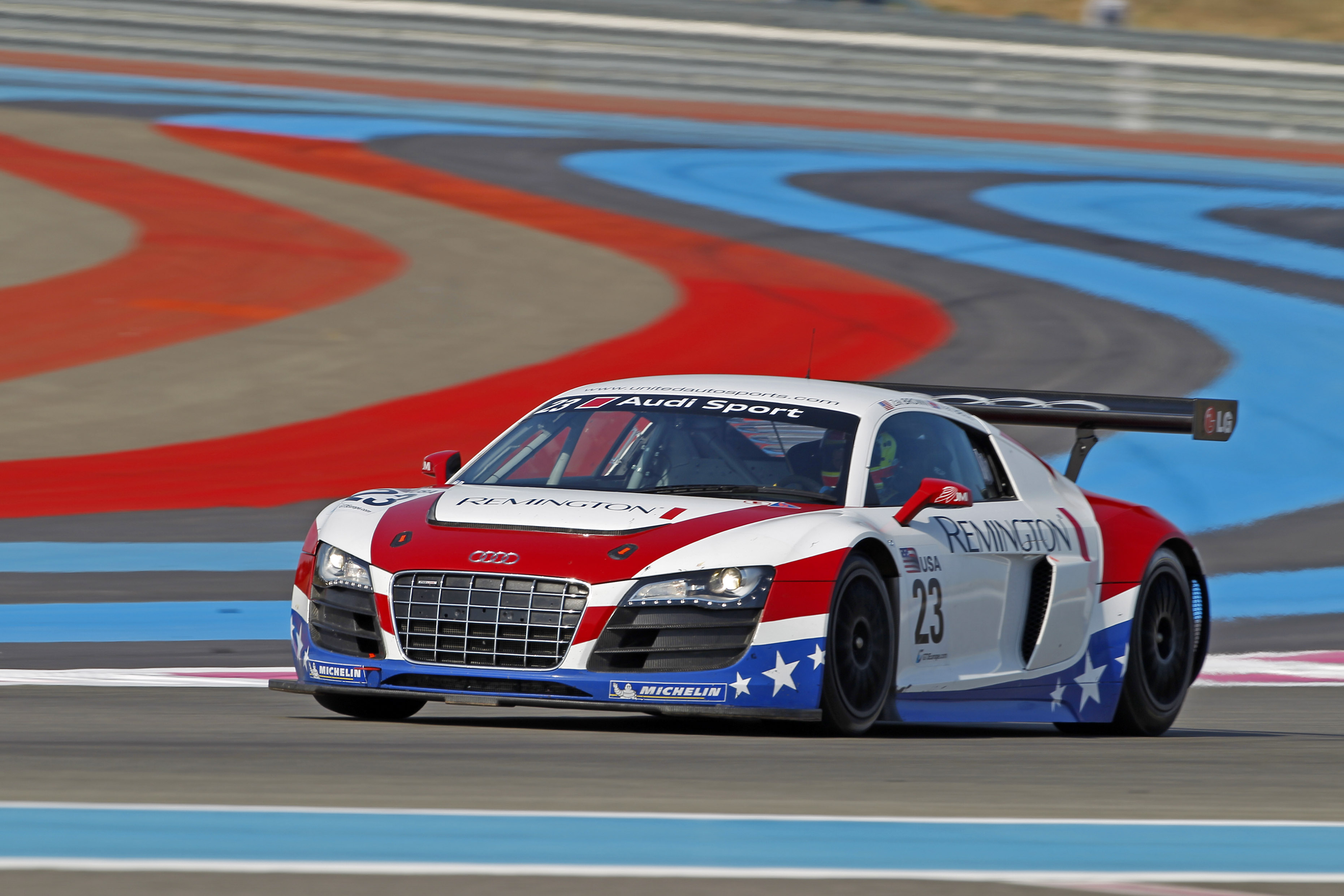 Motorsport - fia gt3 european championship 2010 - circuit paul ricard - le castellet (Fra) - 02 to 04/07/2010 - photo : Francois flamand / Dppi - _